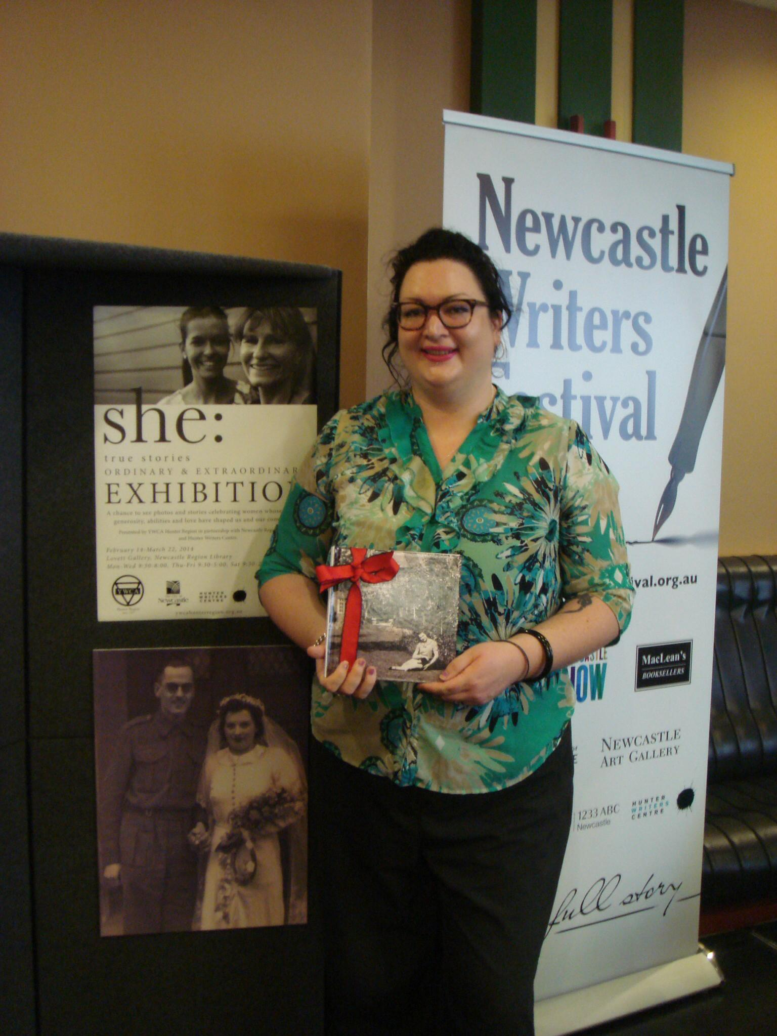 Newcastle Writers Festival (Australia) 2014, She: True Stories session